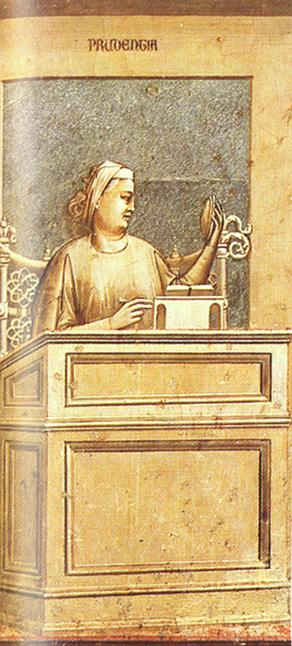 Life of Christ